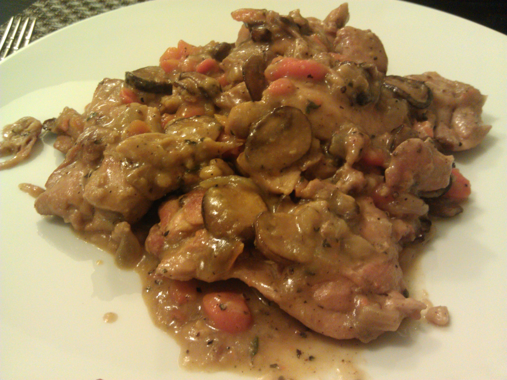 Braised chicken.